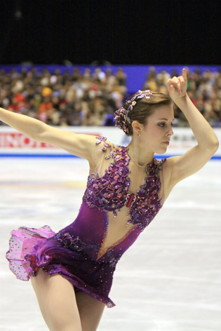 Ashley Wagner at the 2009-2010 Grand Prix of Figure Skating Final.